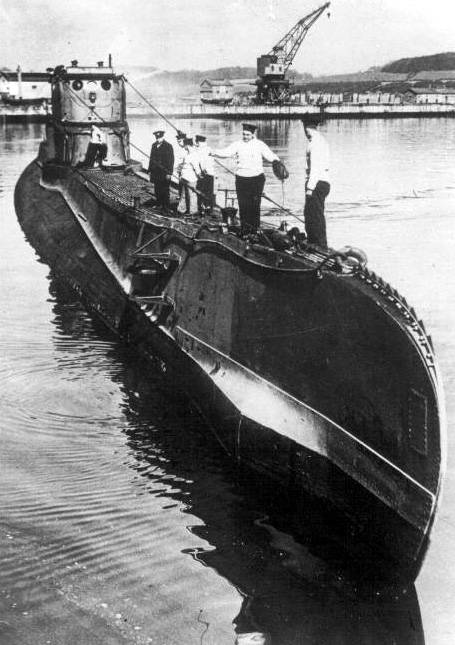 Polish submarine ORP Orzeł shortly after arrival to England 1939 ( ship sunk in May 1940)